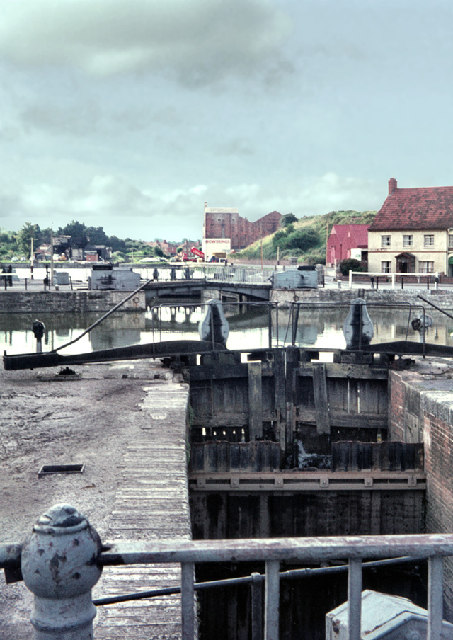 Bridgwater Docks 1968. See the picture "Bridgwater Docks 2002" taken from the same spot in 2002.